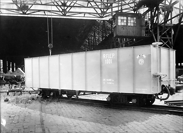 Ferrodinie coal wagon (1954). 750 mm gauge. Gross weight 23 t, maximum payload 17 t. Length 7.8 m. One of the 660 built by State factory Ferrodinie for Ramal Ferro Industrial de Río Turbio (RFIRT), then Ramal Ferro Industrial Eva Perón (see RFIEP markings). Photo taken at Ferrodinie's Avellaneda factory.